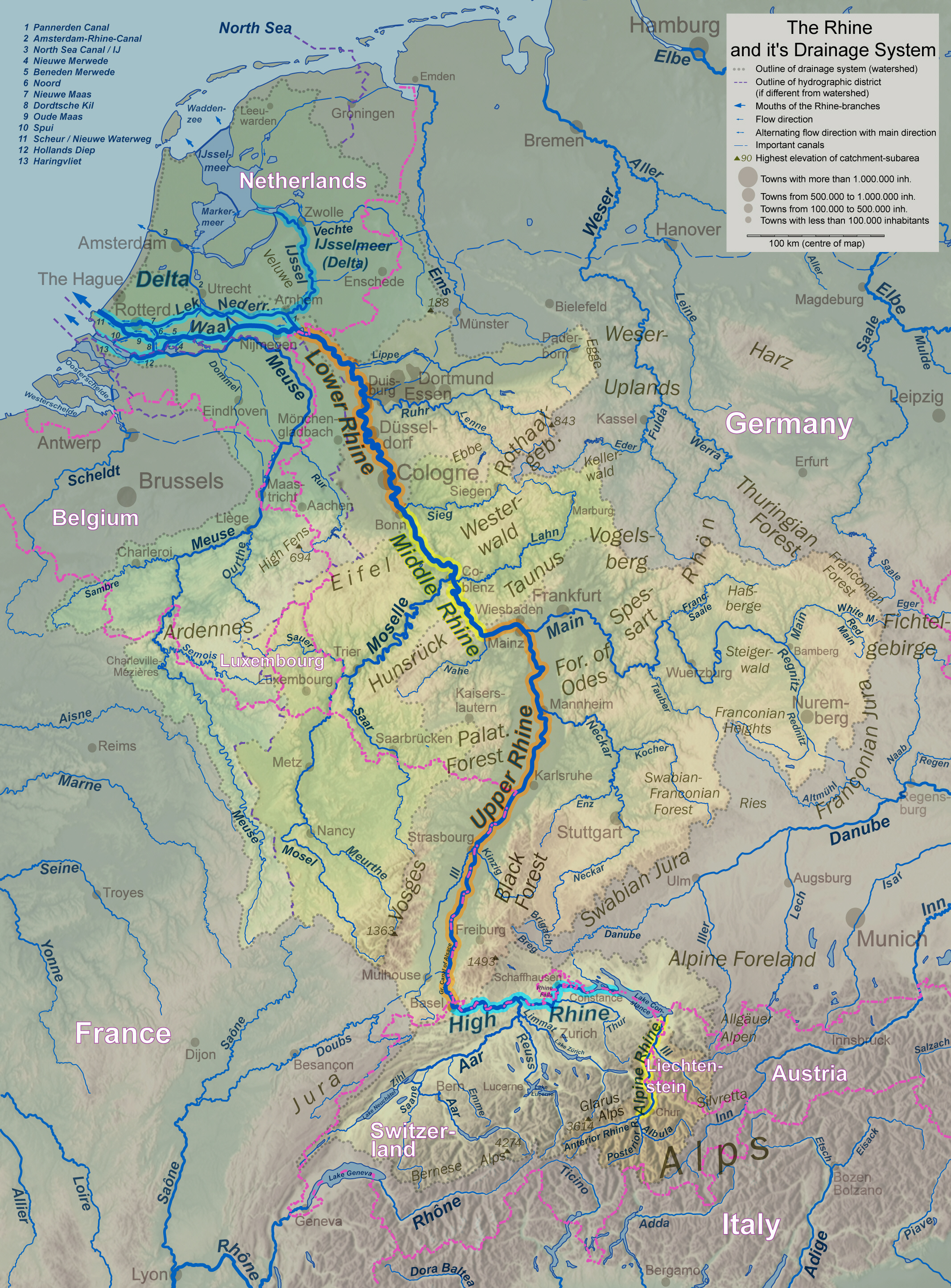 Map of the Rhine course and it's major tributaries, english labels